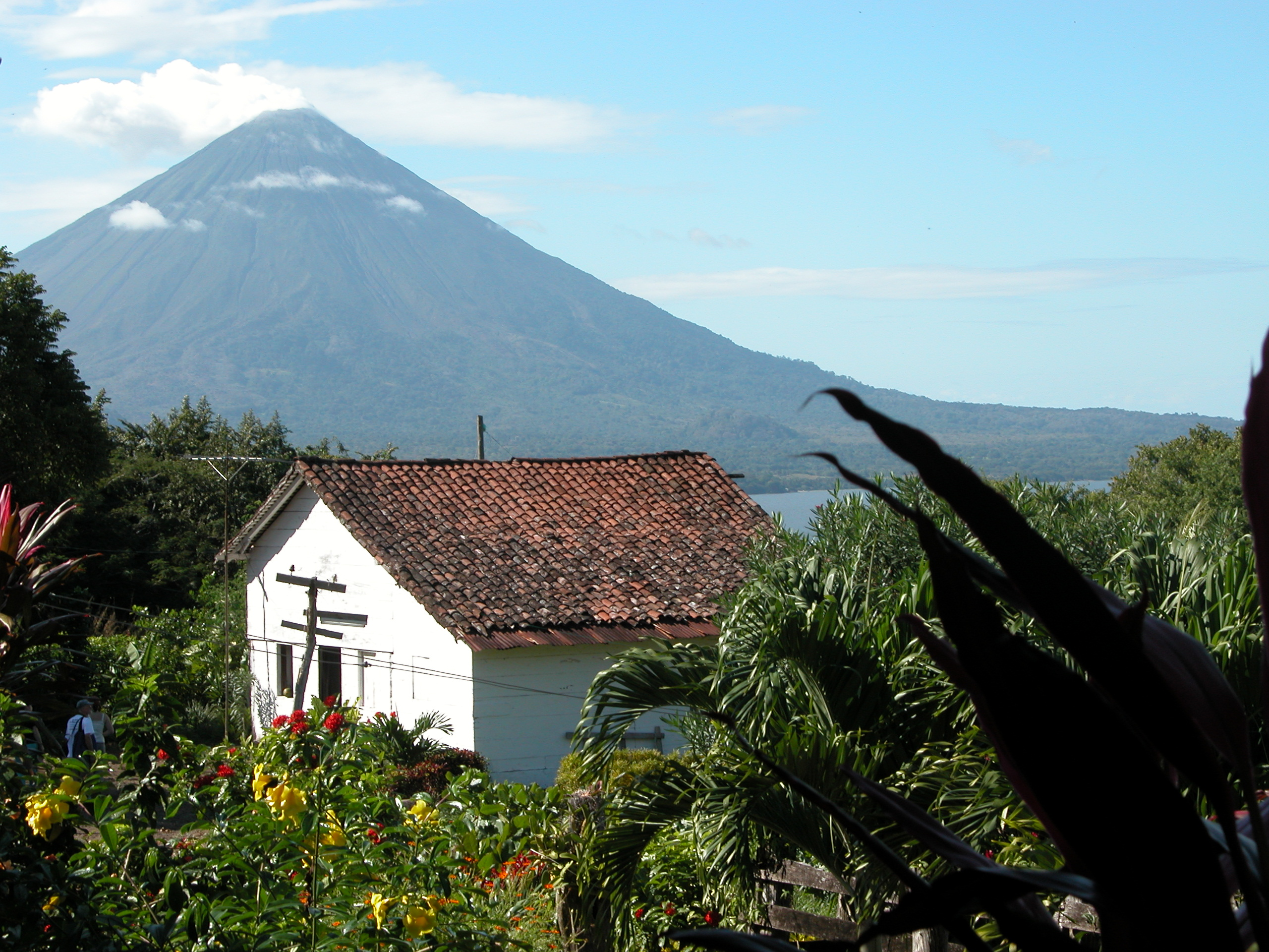 A photograph of Concepcion volcano as seen from Finca Magdalena, Ometepe